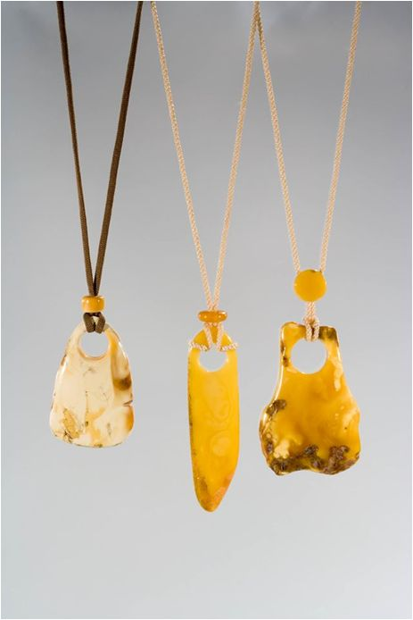 Feliksas Daukantas jewelry (amber)